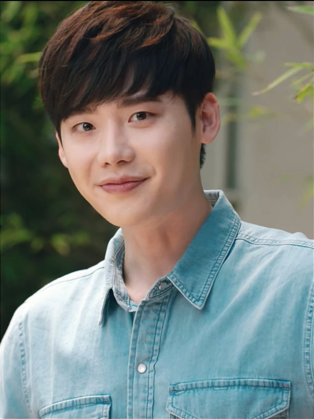 South Korean actor Lee Jong-suk in a March 2018 ad for the Korea Tourism Organization